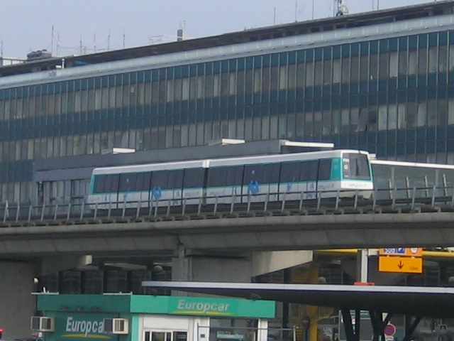 VAL cropped from Image:OrlyVal Orly.JPG VAL 206